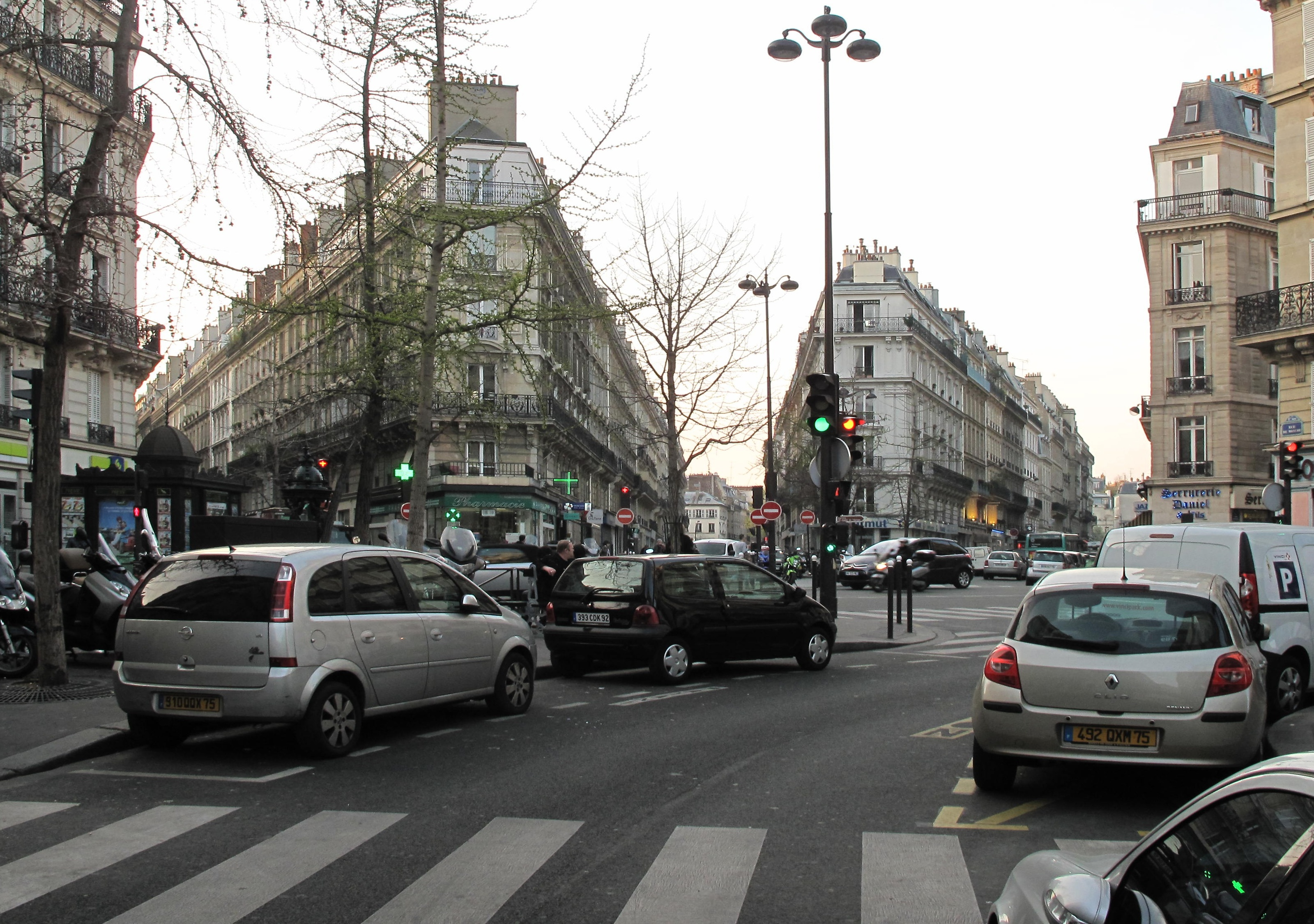 Place de Dublin from the rue de Moscou. In the place where Gustave Caillebotte painted "Street of Paris on rainy day". Paris, 8th arr.